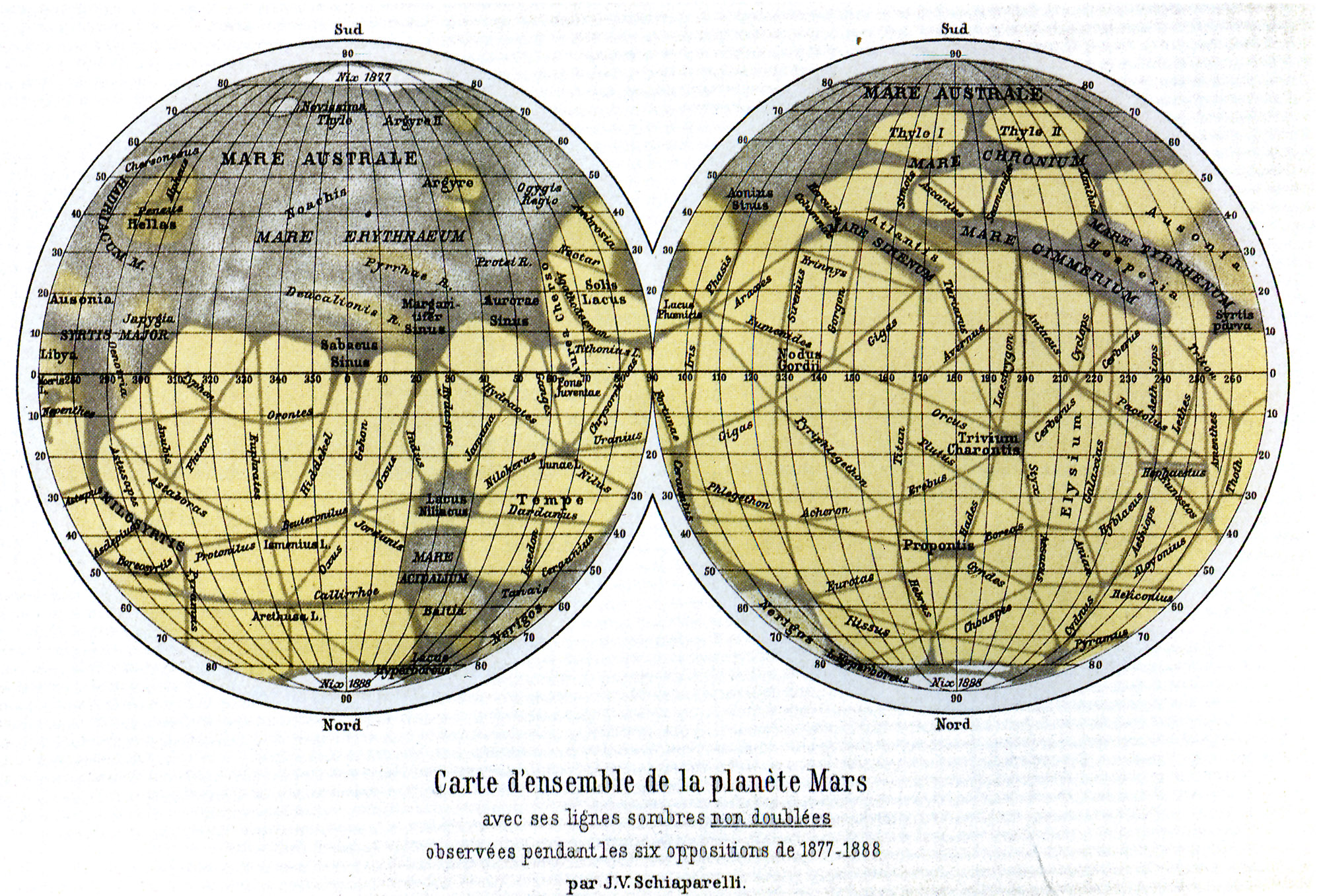 Atlas of Mars by Giovanni Schiaparelli, made in 1888. Note that this is a South-Up map; the South Pole is on top.